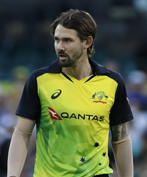 Kane Richardson, Australia vs New Zealand T20